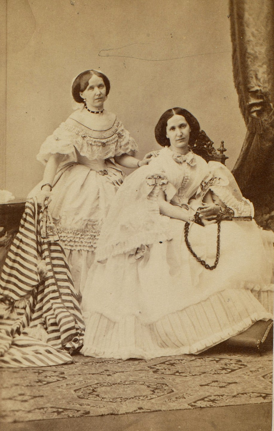 Alexandrine Marie, Princess of Mensdorff-Dietrichstein (1824-1906) and Countess Clothilde Clam-Gallas (1828-99).